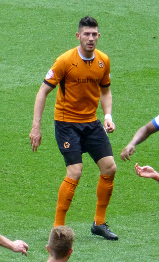 Danny Batth - Wolverhampton Wanderers vs Peterborough United (05/04/2014)